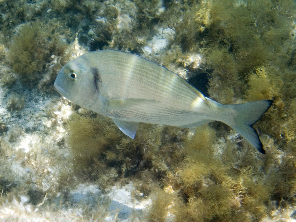 The gilt-head (sea) bream Sparus aurata at "Spiaggia della Pelosa" on the North west coast of Sardinia the water is crystal clear and teaming with fish.